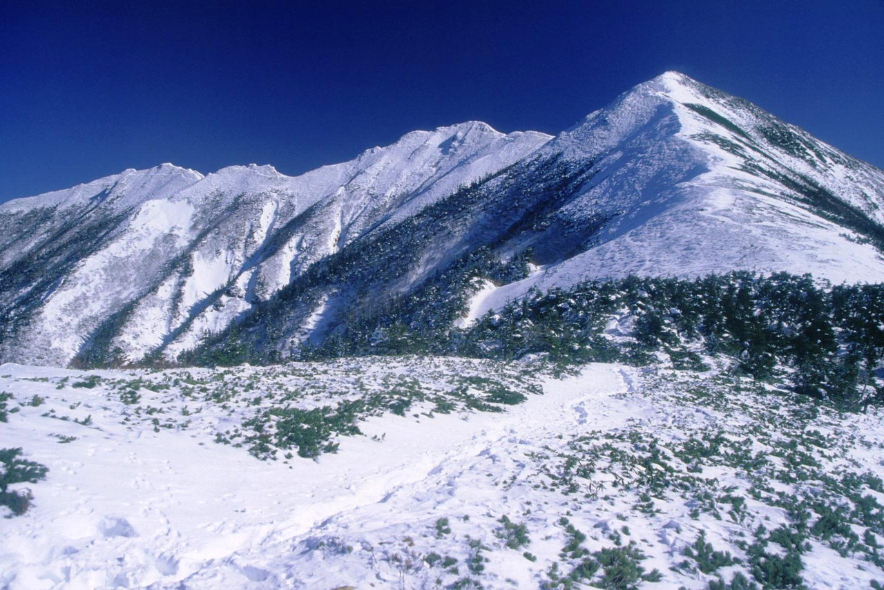 Jiigatake_from_taneikesanso